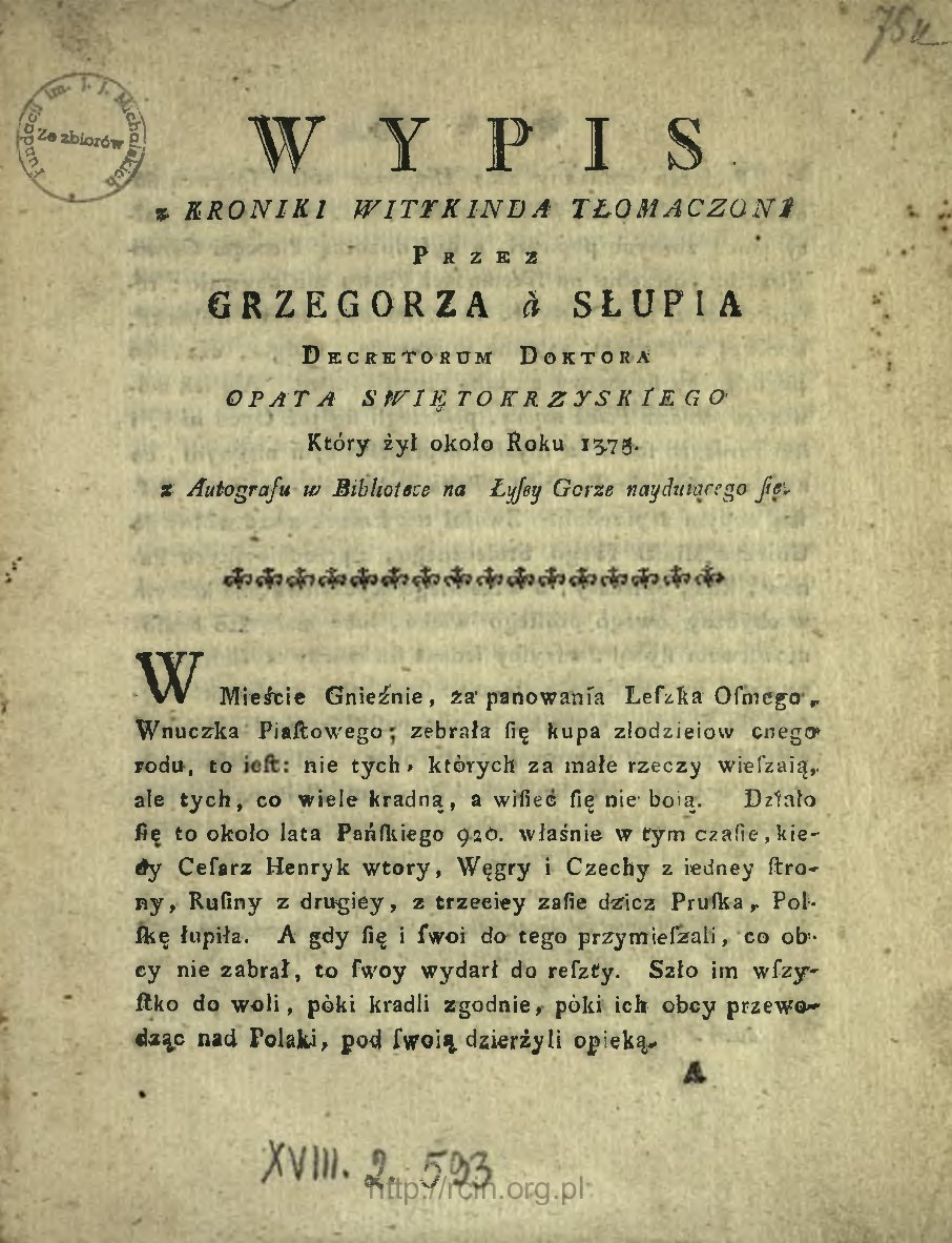 Title page of Wypis z kroniki Witykinda by Franciszek Salezy Jezierski.